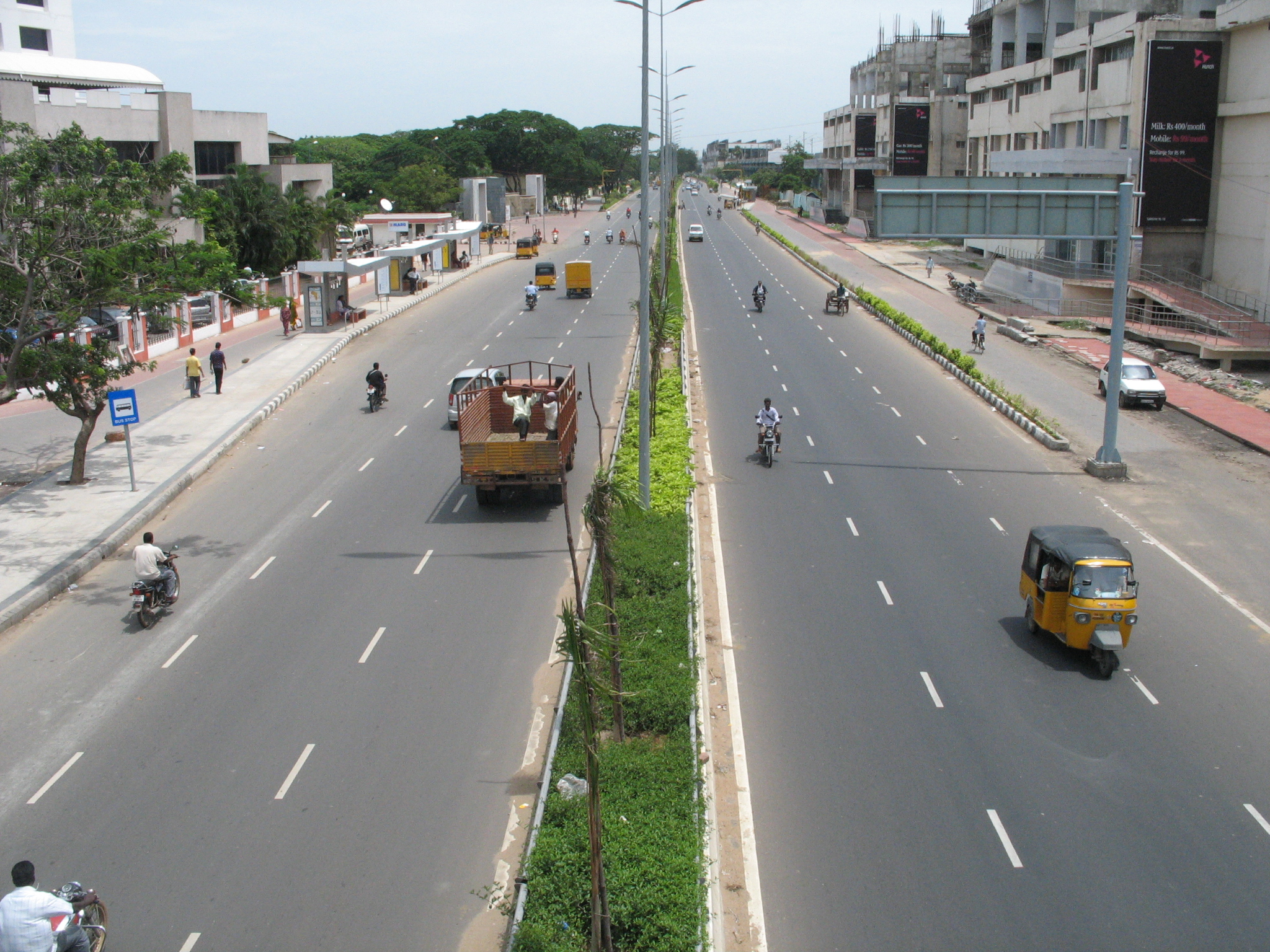 The 6 lane IT Corridor from Madhya Kailash along the old Mahabalipuram Road